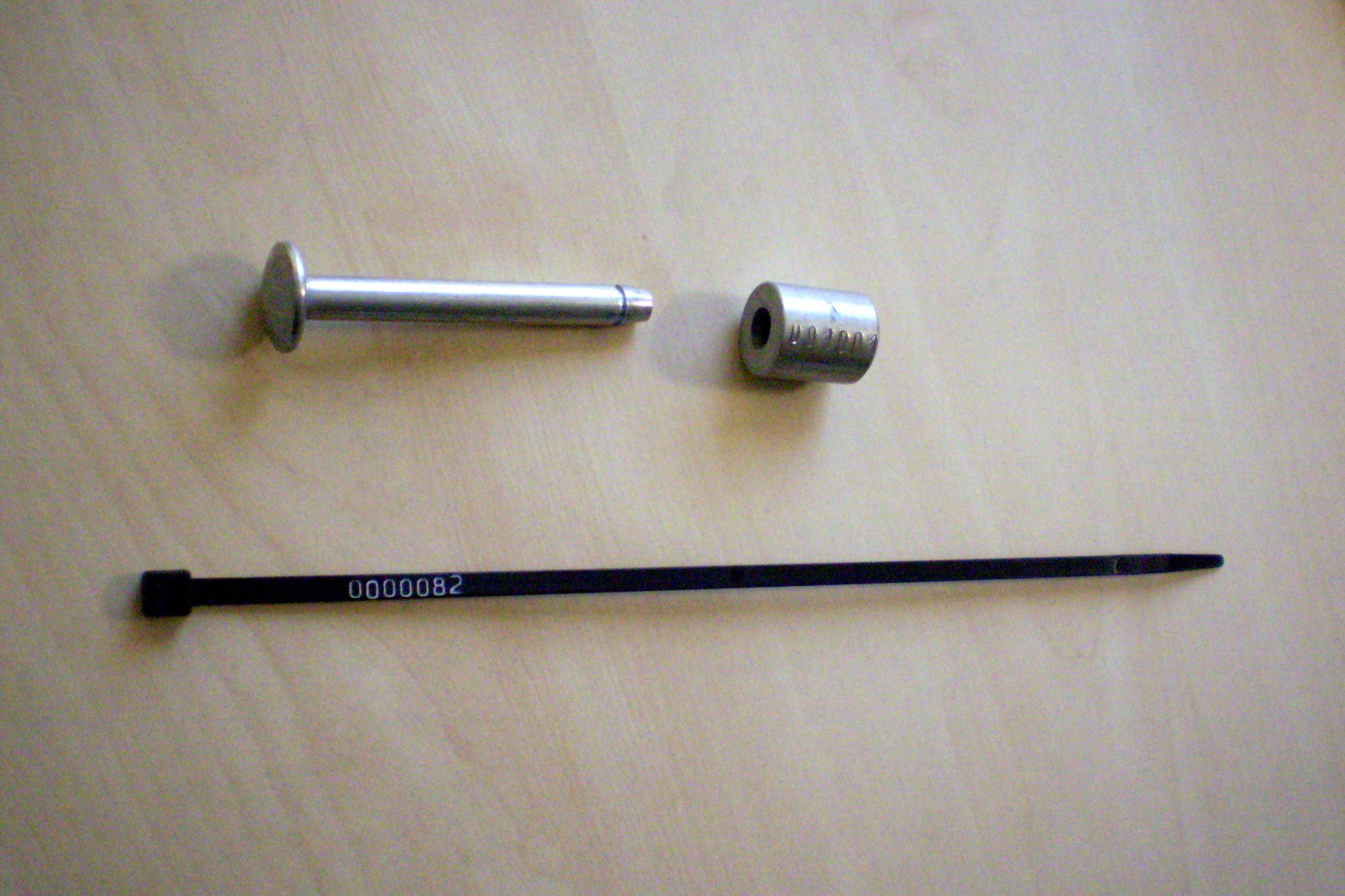 Container seals